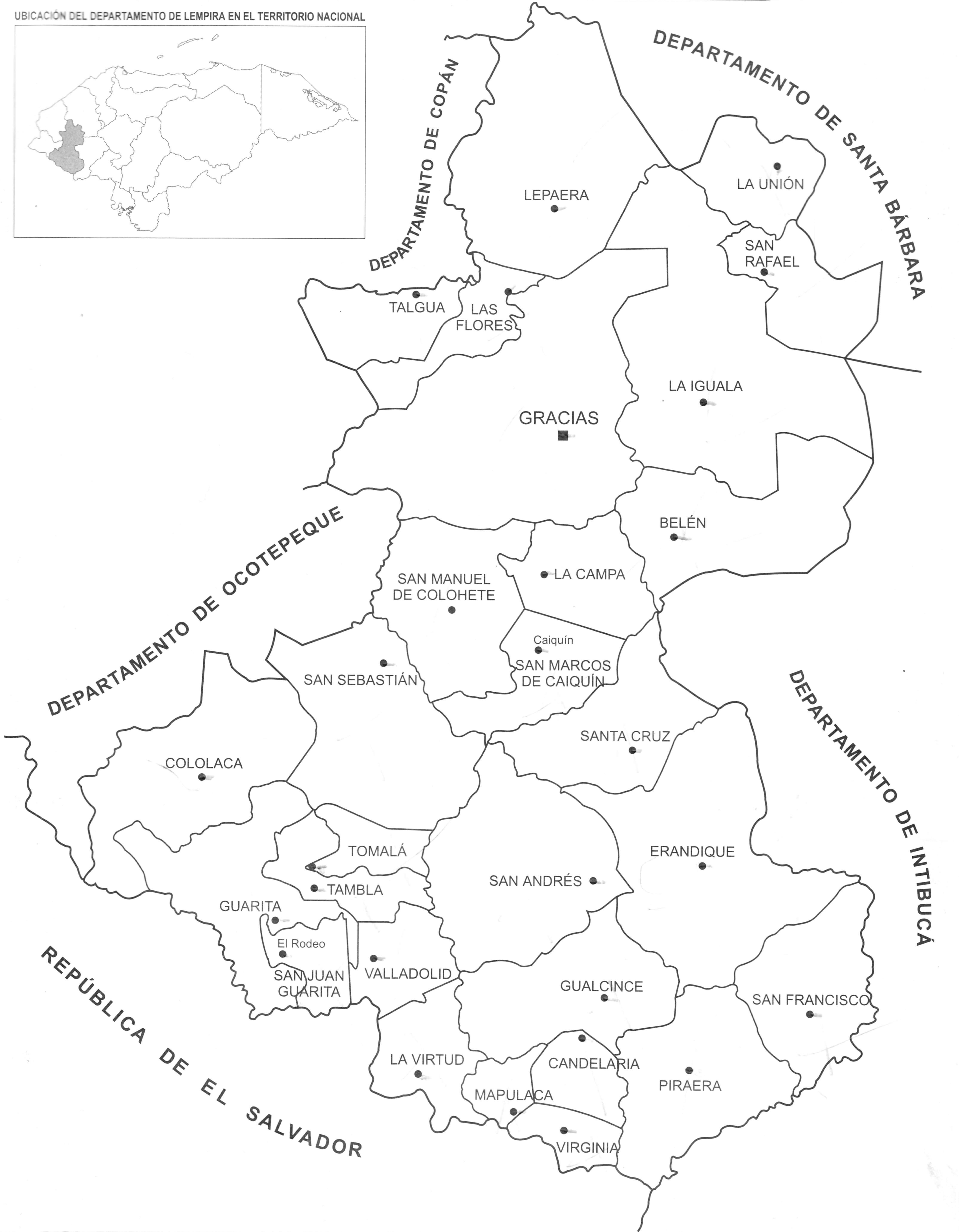 Español